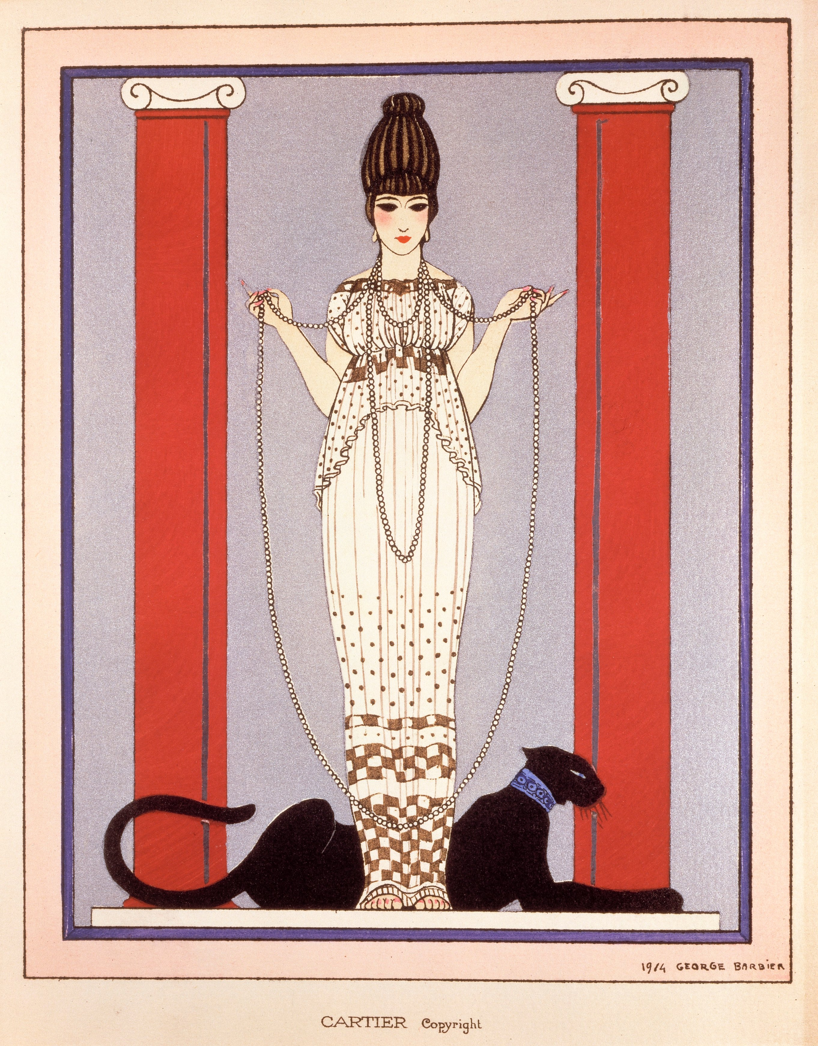 Lady with Panther by George Barbier for Cartier, 1914. Display card commissioned by Louis Cartier in 1914, was later used in advertising for the firm, the image shows a woman in a fashionable Poiret gown with a panther at her feet.